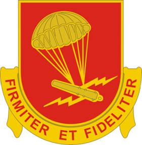 377th Field Artillery Regiment Distinctive Unit Insignia